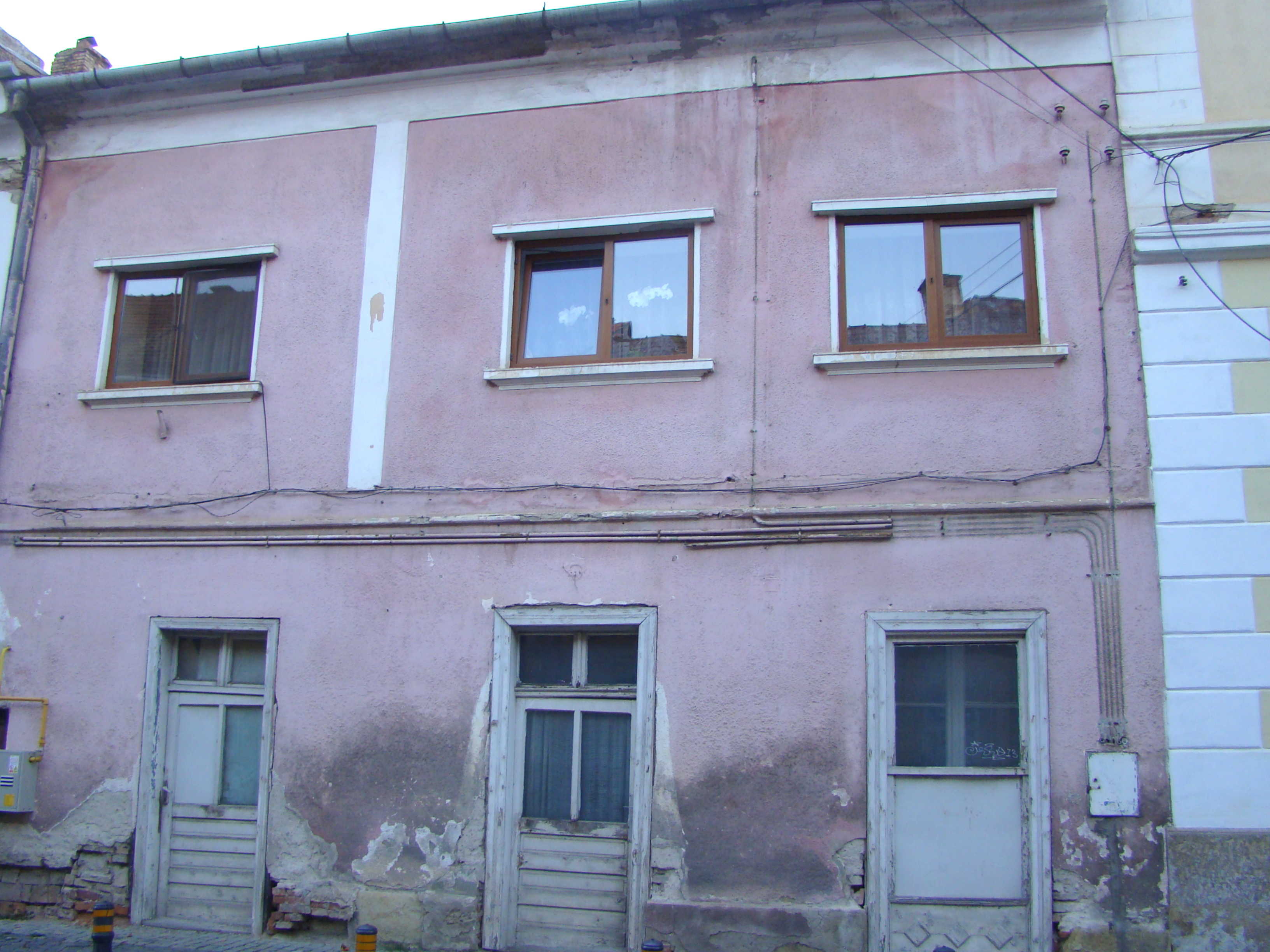 House, historic monument, in Bistrița, Nicolae Titulescu street 2